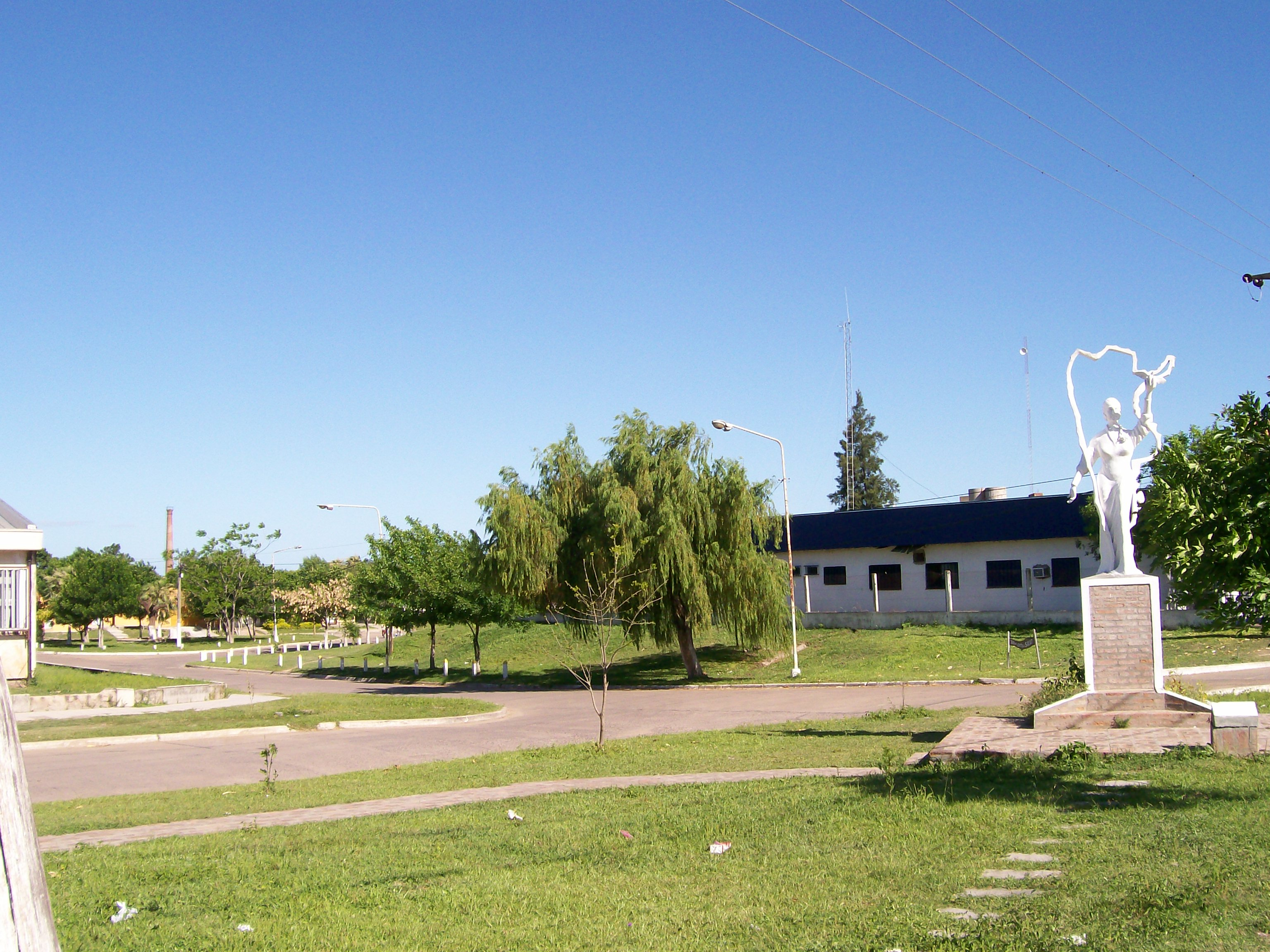 Statue of Eva Duarte de Perón surrounded by a map of Argentina. Main entry to Puerto Vilelas (Chaco Province, Argentina).